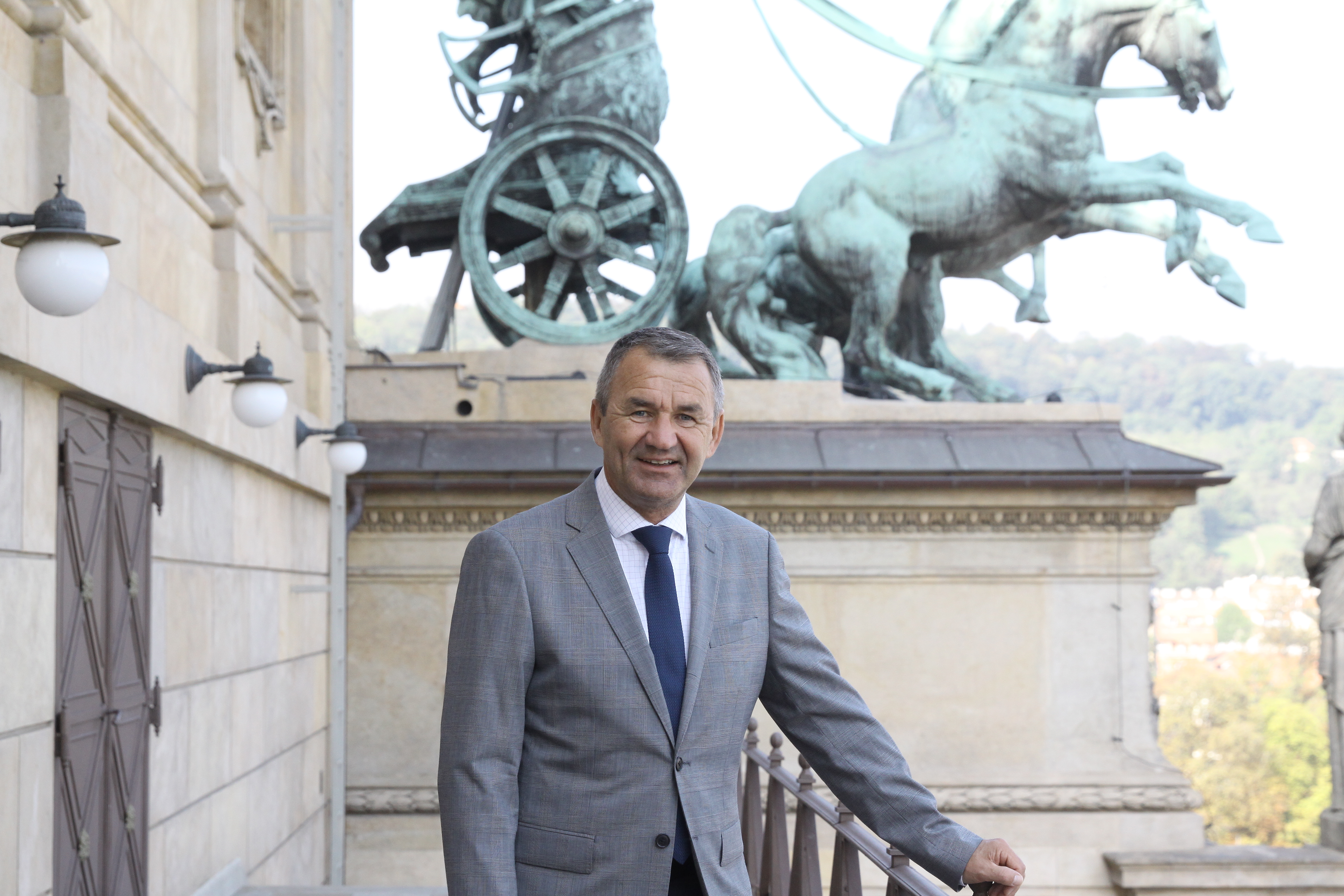 Per Boye Hansen